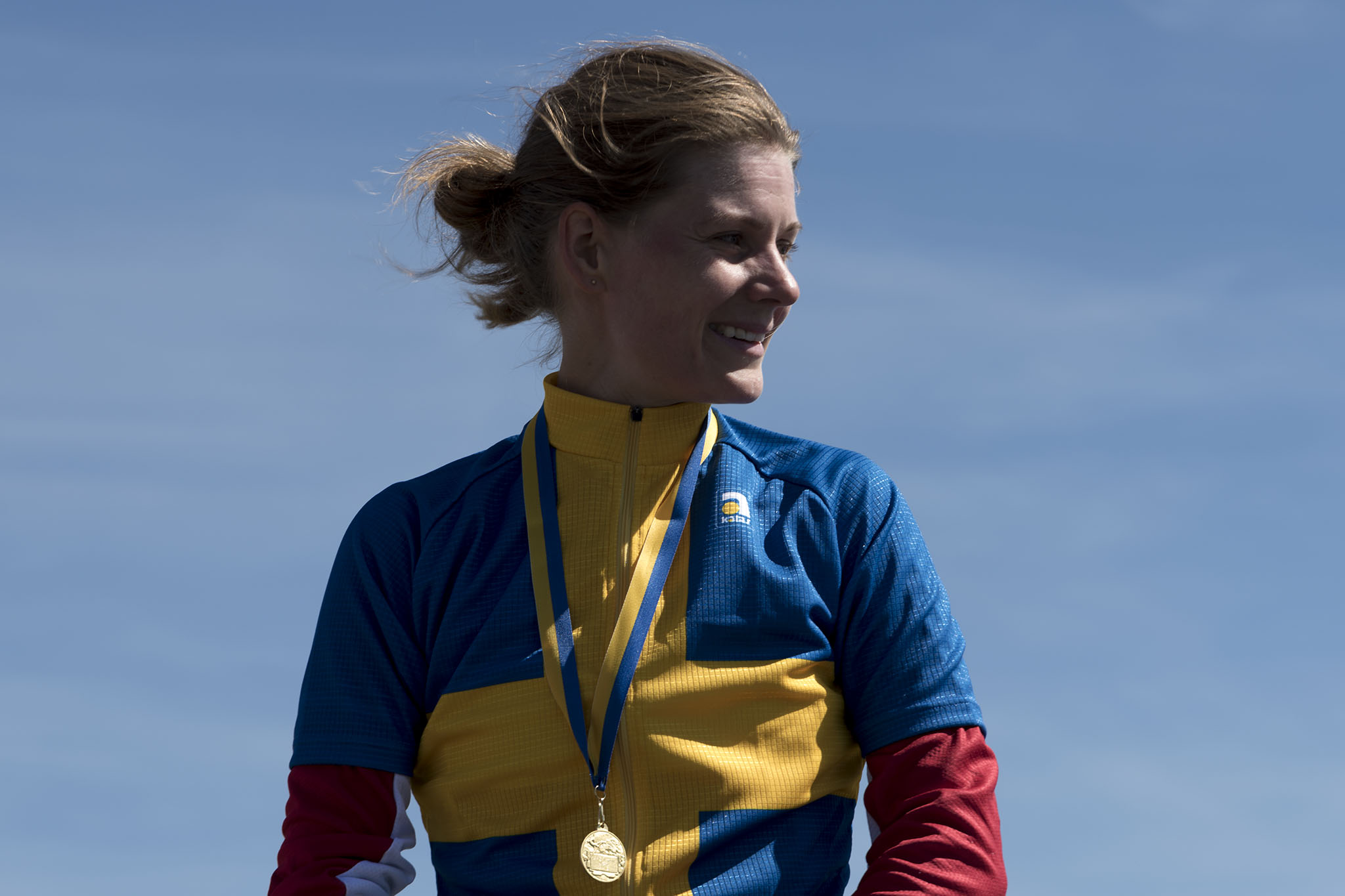 Emma Johansson during the 2016 Swedish National Cycling Championship.